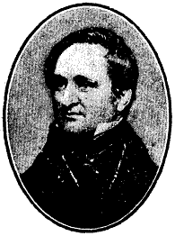 Portrait of Henry Hallam, (9 July 1777 – 21 January 1859), English historian.